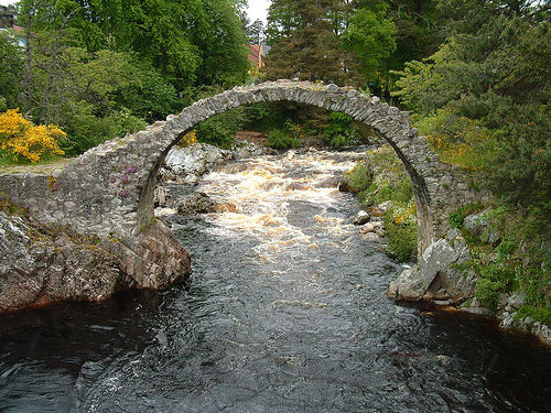 Summary:This is quite a famous bridge, in Carrbridge, North of Aviemore, Scotland. Built in 1711, it was half destroyed in floods in 1800's. All that is left are its bones. Author:ccgd